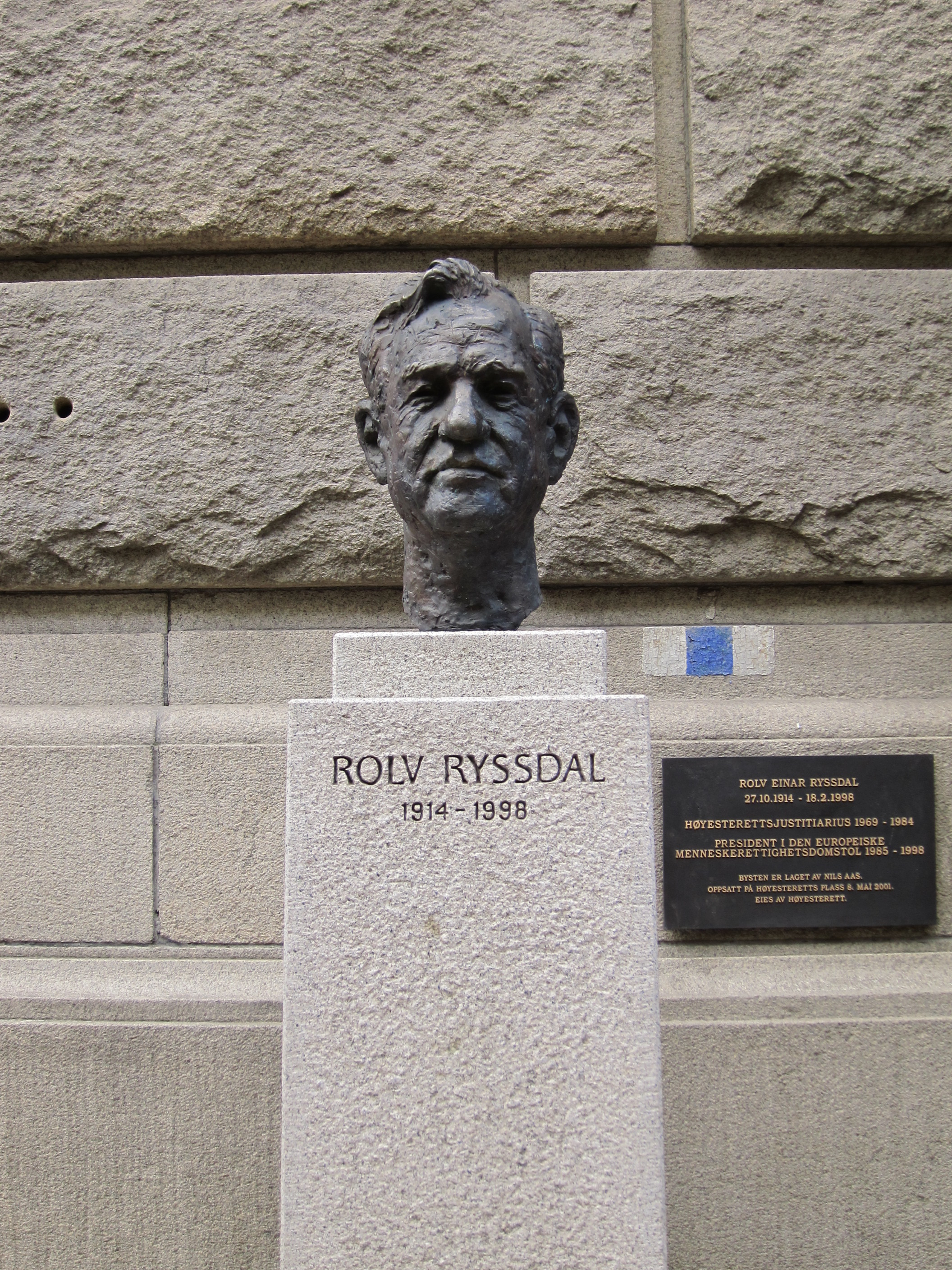 Rolv Ryssdal (chief justice, Supreme Court), Oslo. Sculpture by Nils Aas.